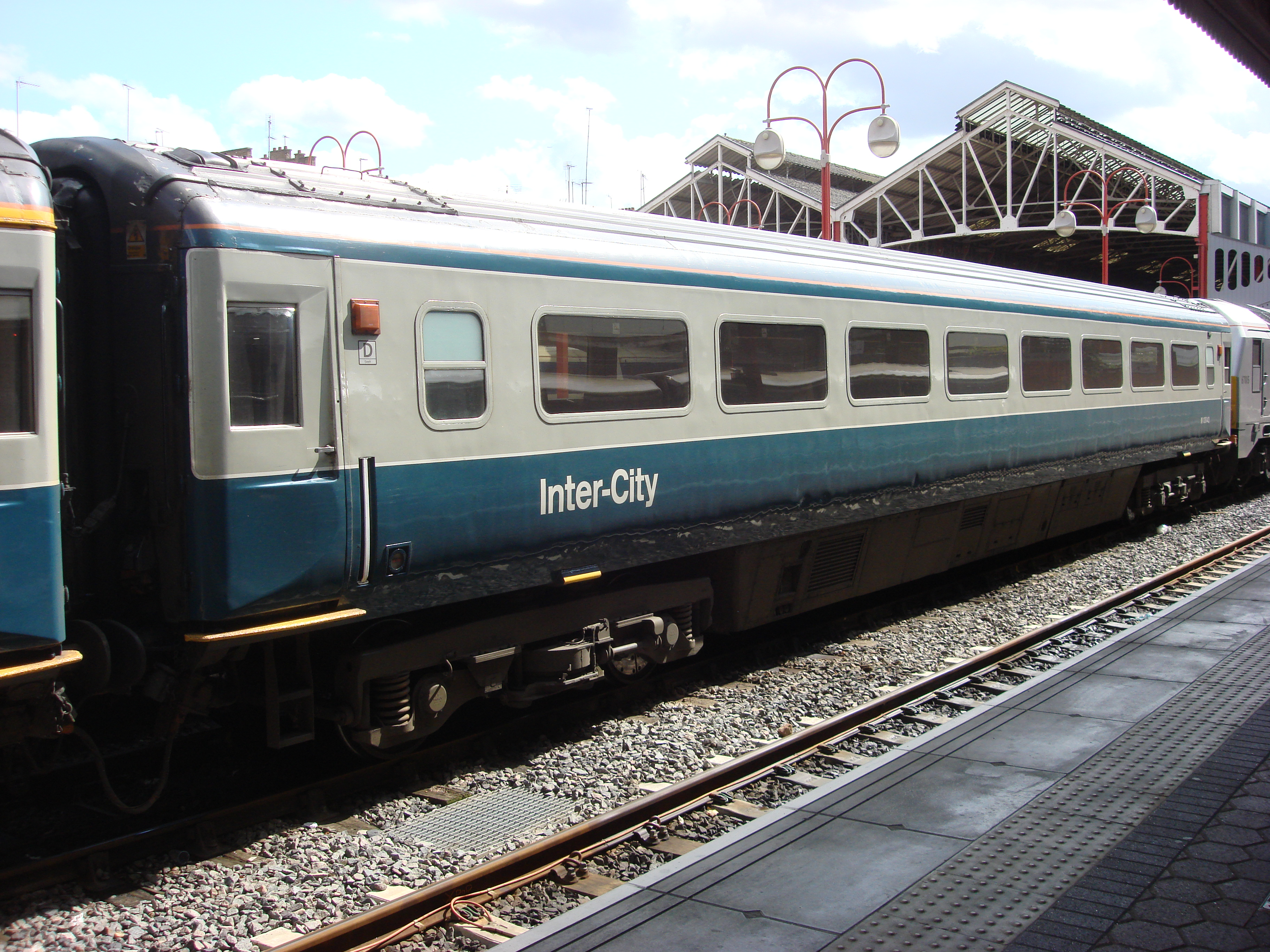 British Rail Mark 3 TSO number M 12043 at Marylebone